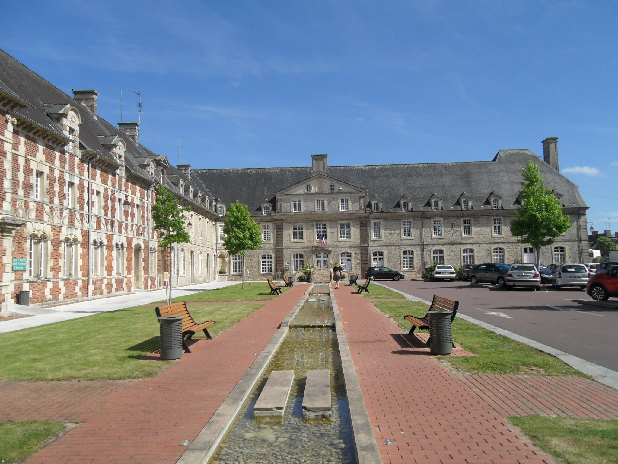 Town hall of Carentan from west